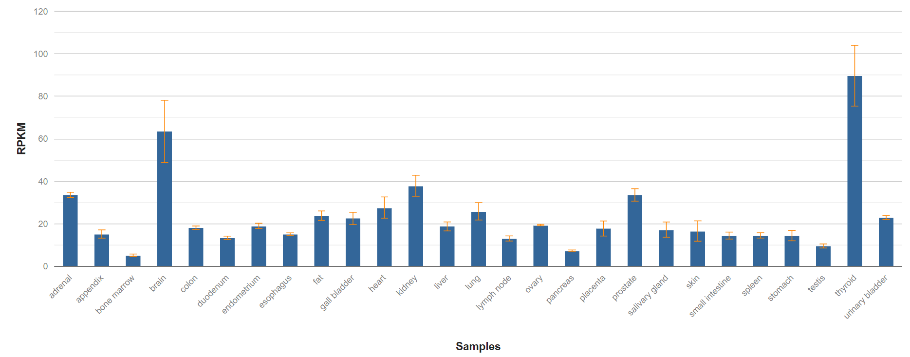 HPA RNA sequencing data for REEP5 in human sourced from NCBI Expression Database